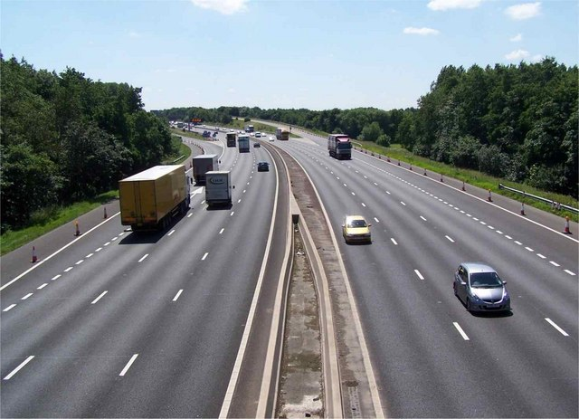 M6 just before Junction 12